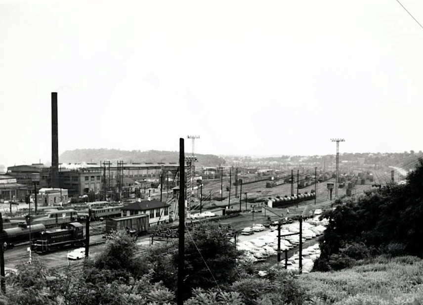 View of Enola Yards Looking South